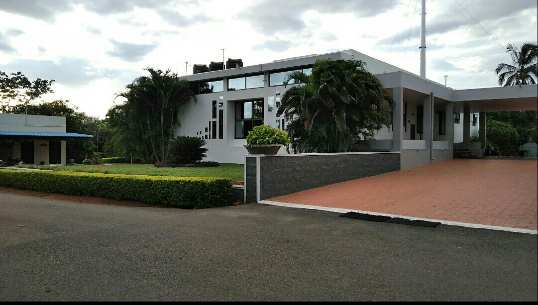 Modern and clean crematorium in Tamil nadu